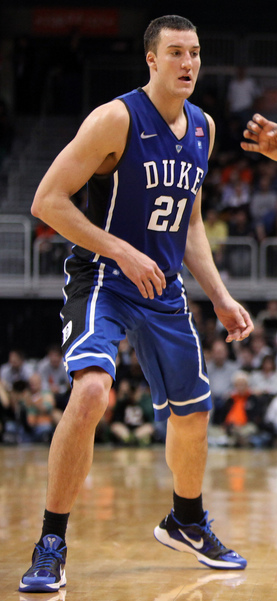 Miles Plumlee, forward for Duke Blue Devils against Miami, February 13, 2011.